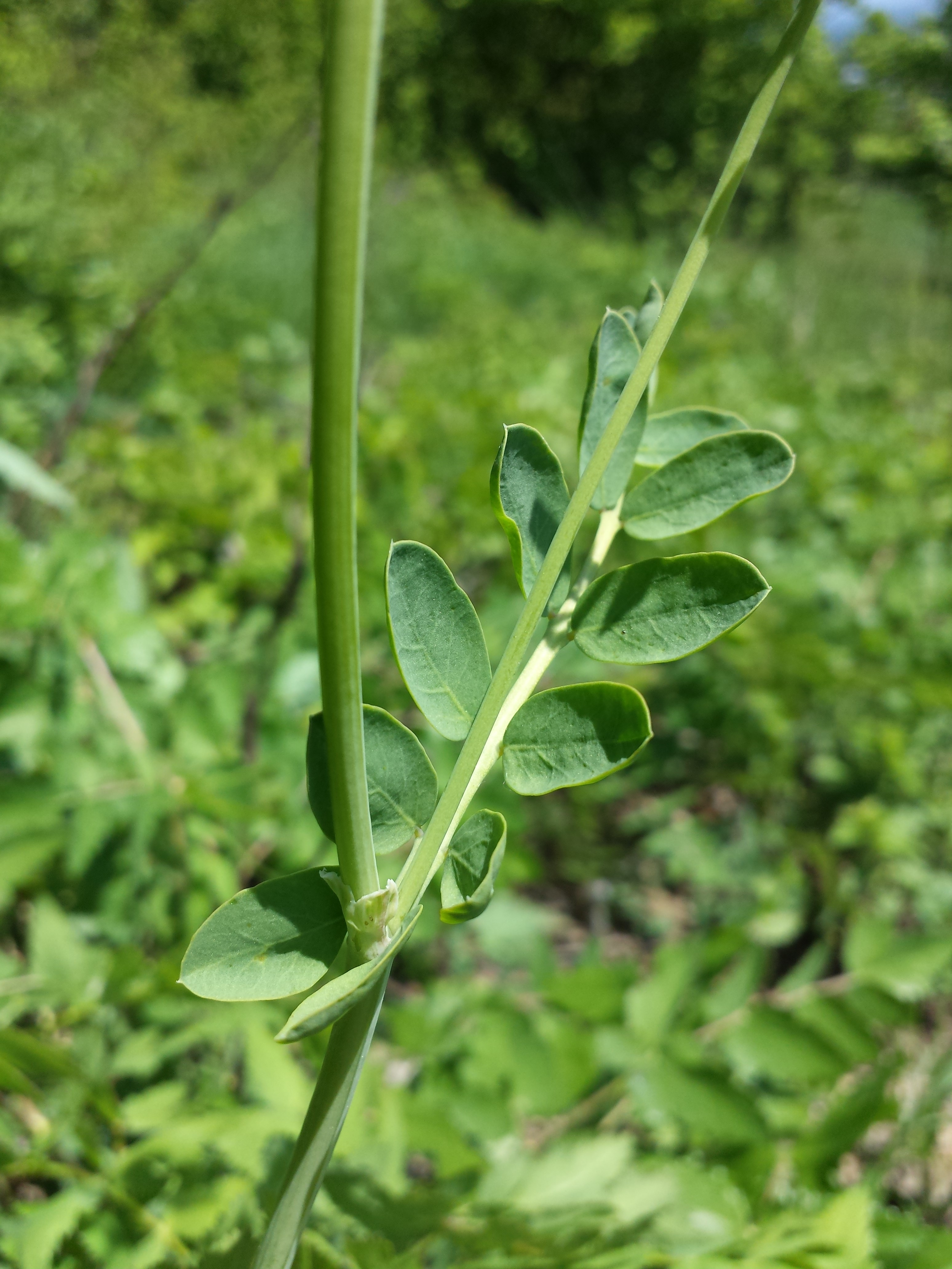 Stem with leaf Taxonym: Coronilla coronata ss Fischer et al. EfÖLS 2008 ISBN 978-3-85474-187-9 Location: near Gumpoldskirchen, district Mödling, Lower Austria - ca. 300 m a.s.l. Habitat: meadows/border of a wood